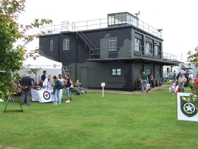 RAFBF 90th Birthday Air Show, East Kirkby RAF East Kirkby is home to the Lincolnshire Aviation Heritage Centre. Seen here is the Control Tower.